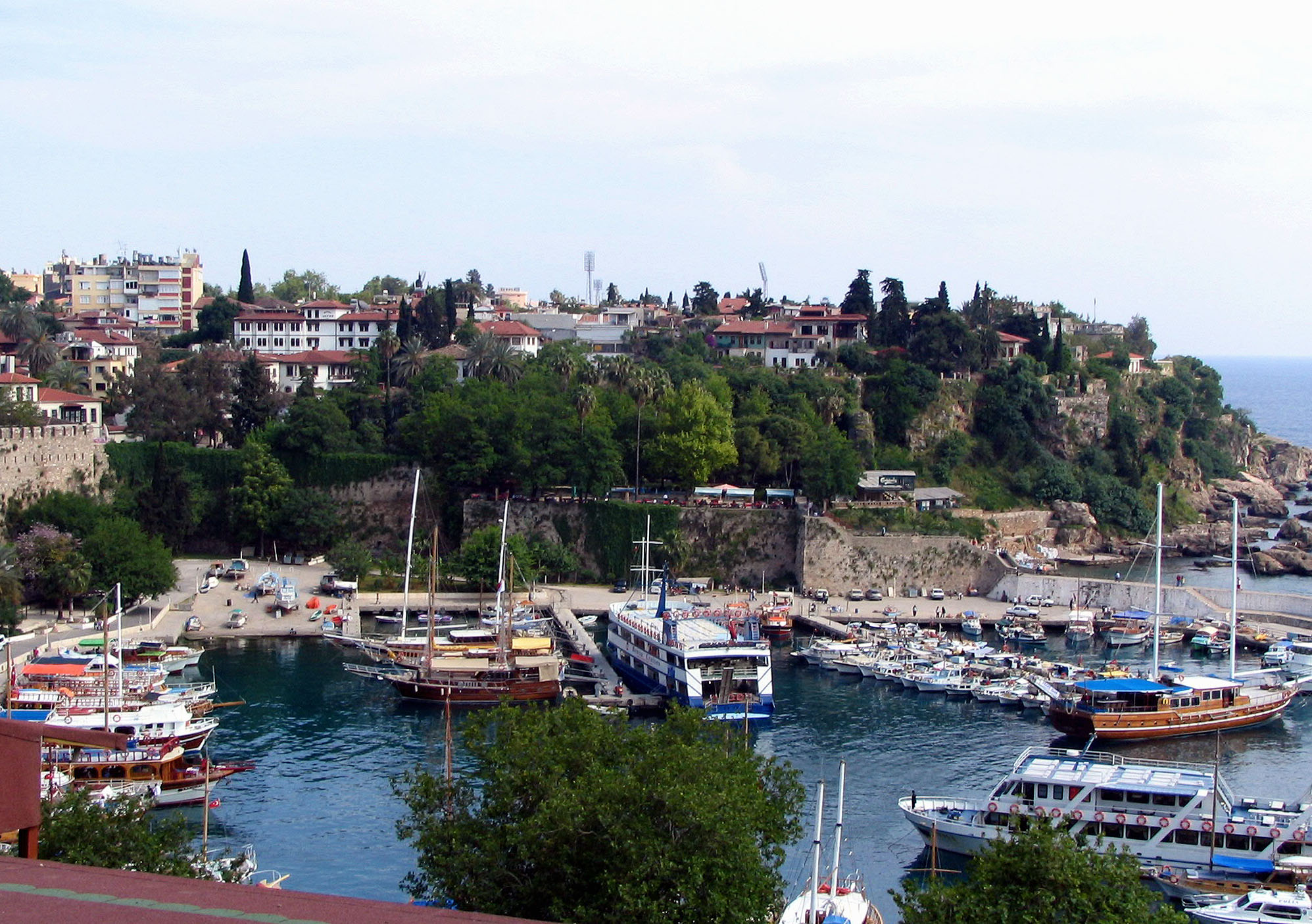 Antalya harbour, Turkey. May 2006. Photo by Winstonza talk